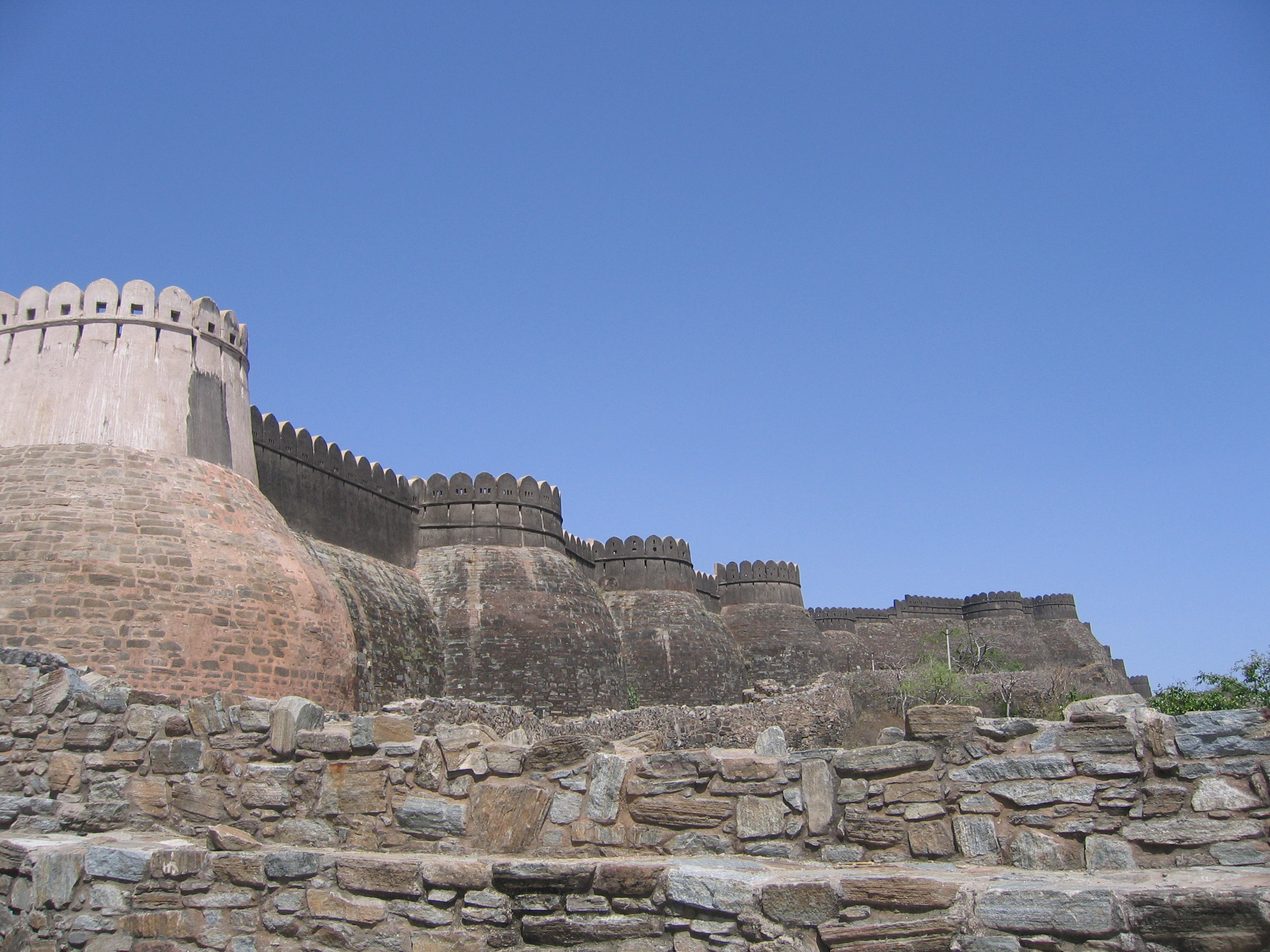 Shivam Chaturvedi is the Author.